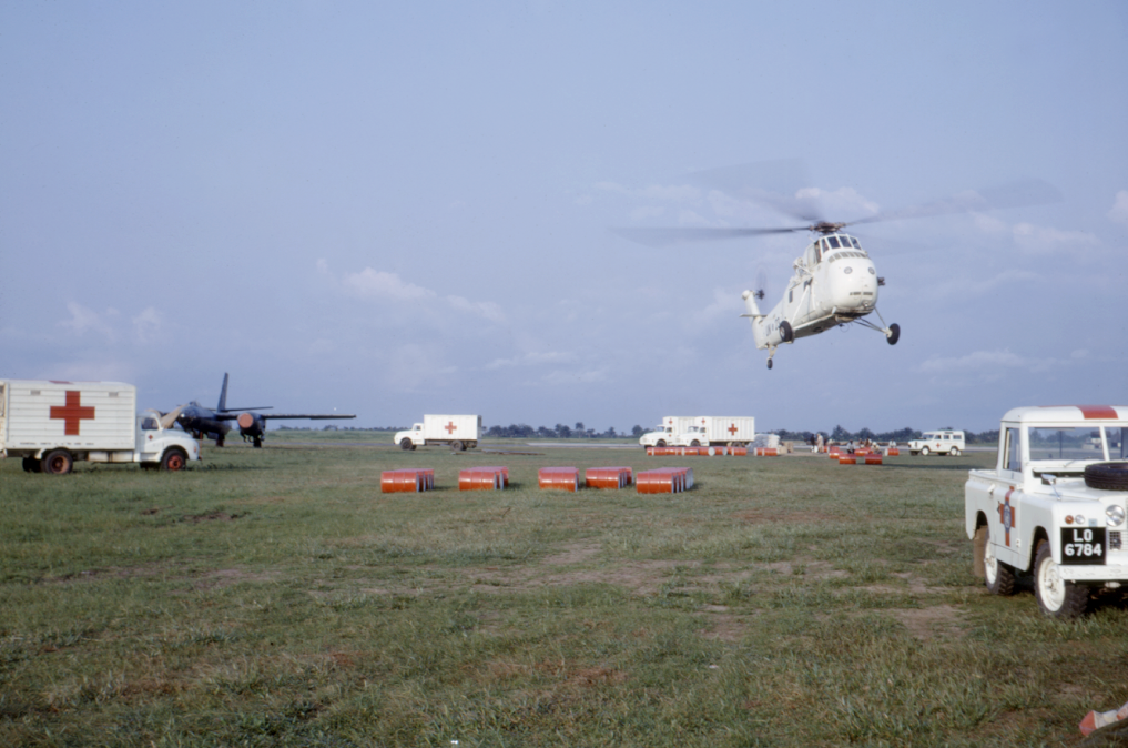 This late 1960s photograph depicts a field that had been converted into a make-shift airport in Calabar, Nigeria, where relief efforts were aided by a helicopter team. These helicopters could move one ton of crated, dry fish quickly to refugee camps in the Nigerian-Biafran war zone. In 1967, the CDC was asked to assist the International Committee of the Red Cross (ICRC) in its disease control and death prevention efforts during the Nigerian-Biafran war. A large number of relief camps were established for purposes of nutrition assessment, and feeding operations for the local villagers around the war zone.